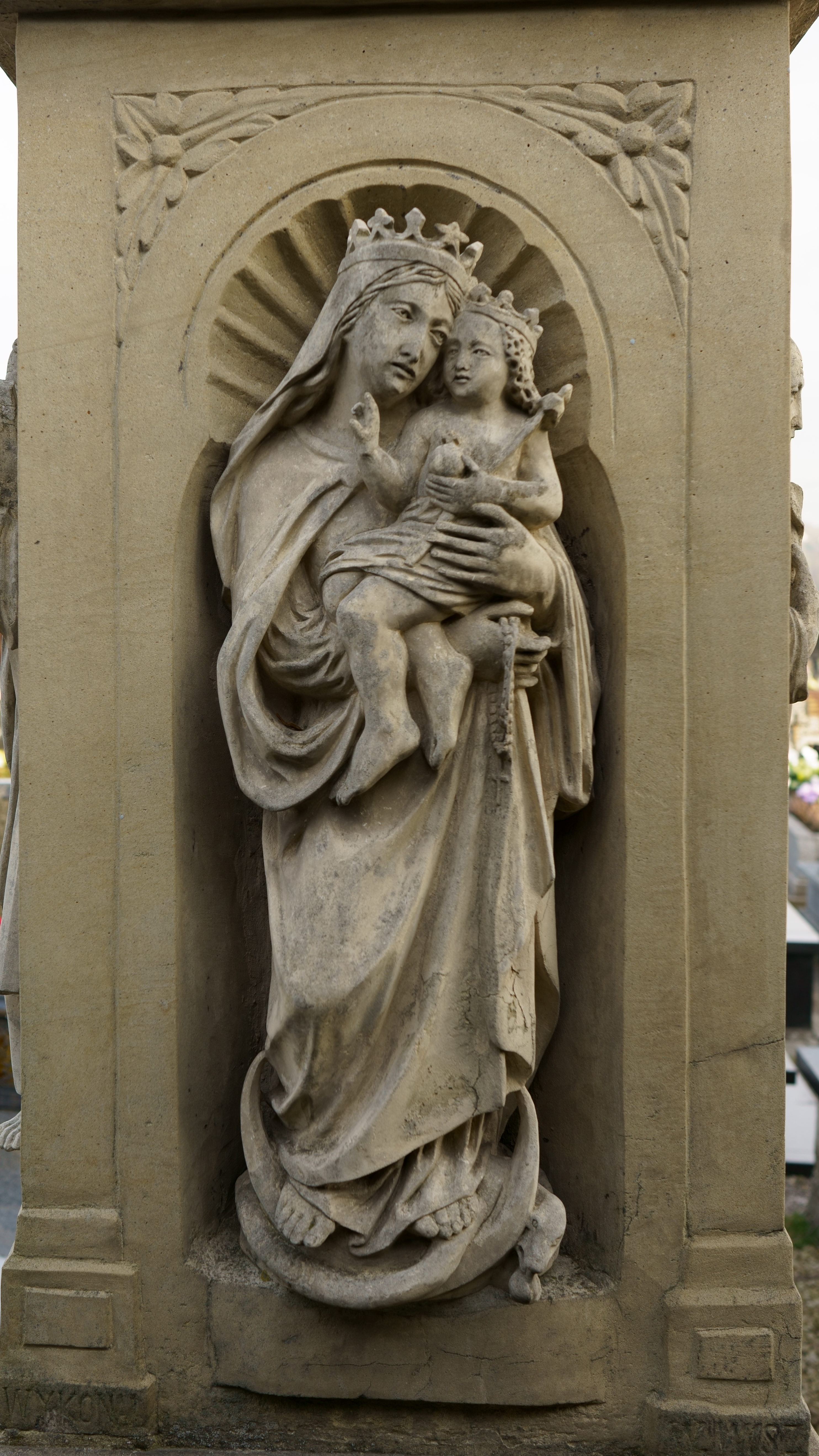 Cemetery in Radziszów.